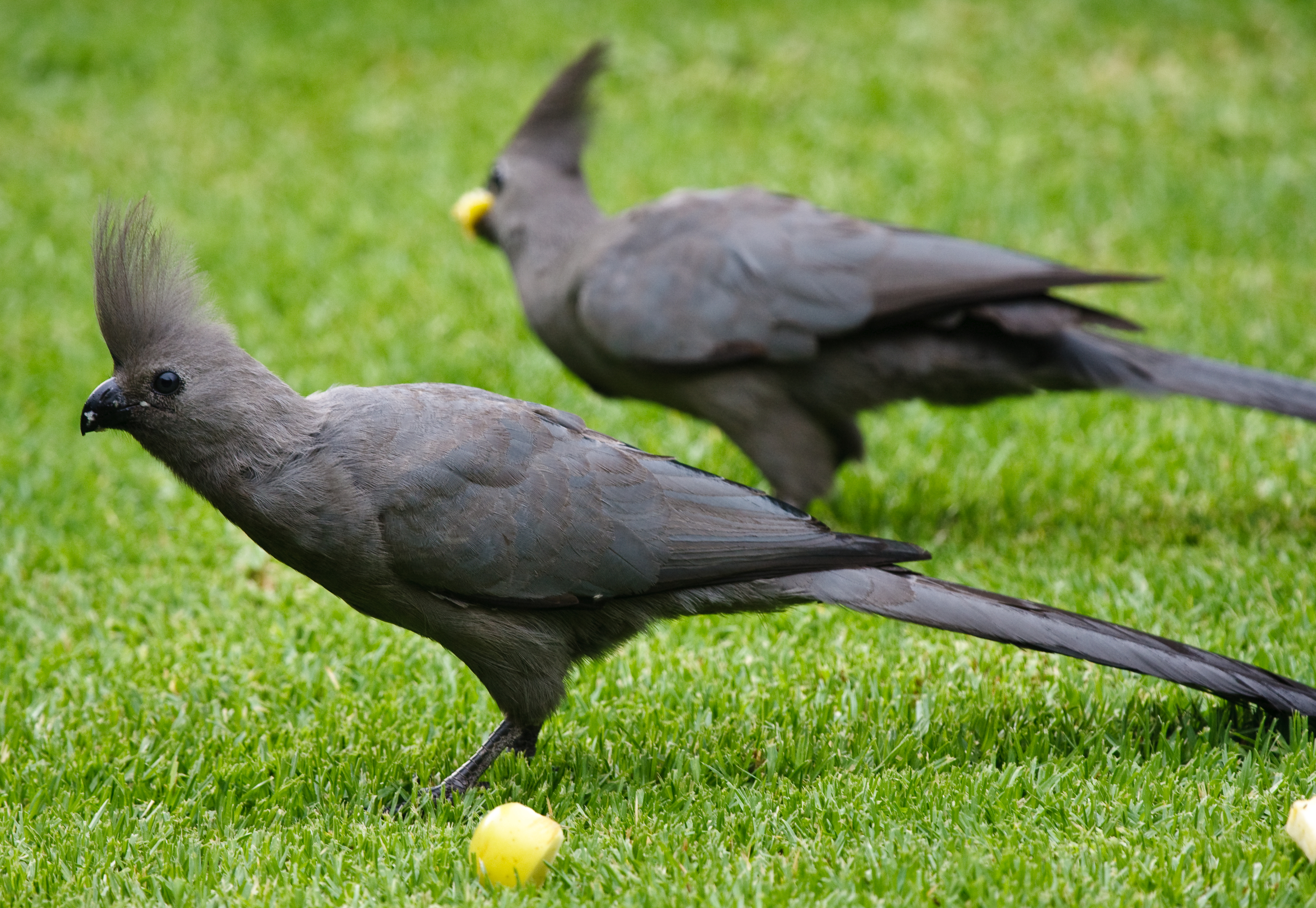 Grey Go-away-bird (Corythaixoides concolor). Two on a lawn in South Africa.